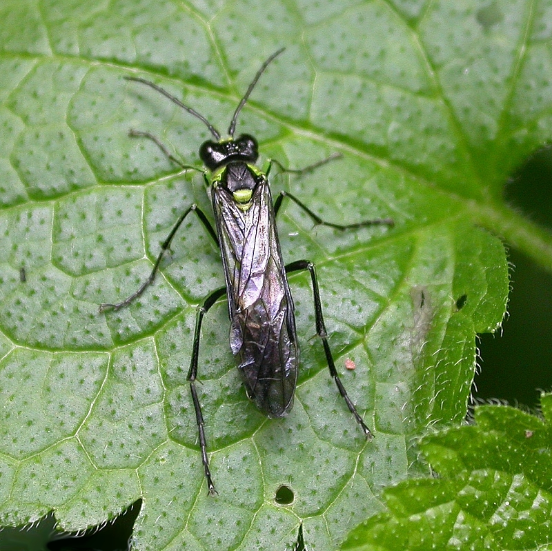 Tenthredinidae species (Tenthredo mesomela Linneaus, 1758), Mörfelden, Germany